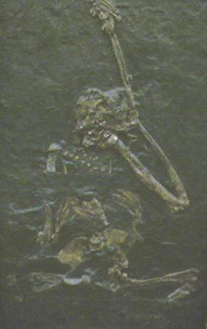 Oreopithecus bambolii fossil, from the Institut de Paleontologia Miquel Crusafont